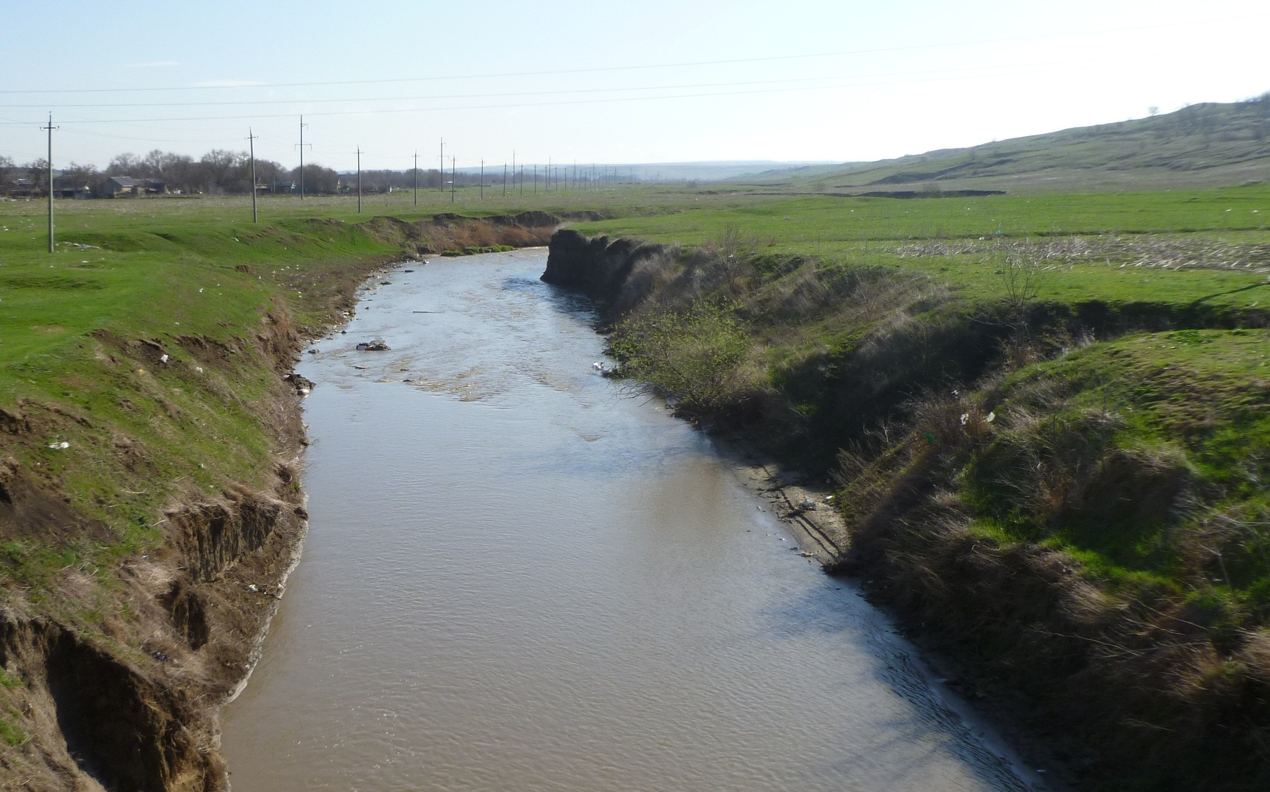 river Ula